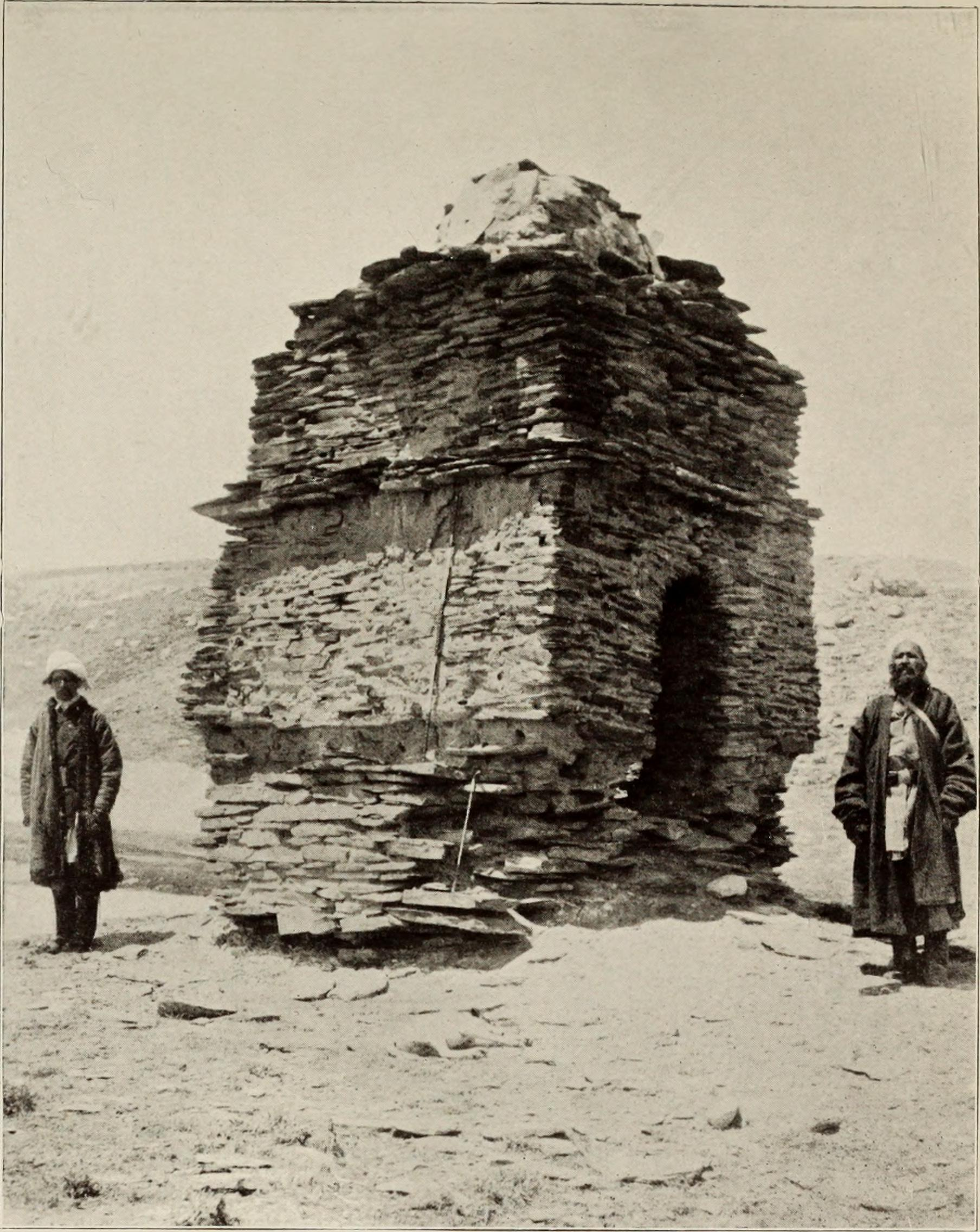 Title: Ruins of desert Cathay : personal narrative of explorations in Central Asia and westernmost China Year: 1912 (1910s) Authors: Stein, Aurel, Sir, 1862-1943 Archaeological Survey of India Subjects: Publisher: London : Macmillan Text Appearing Before Image: idering our late start from Chakdara, the march toSarai, the usual first halting-place, would have been enoughfor the day. But good reasons had decided me to push onto the Lowarai by double marches. It was getting ontowards 5 p.m. when we passed the Levy fort of Sarai; yetI could not forgo my intention of using what remained ofthe day for my first piece of archaeological survey work. Atthe hamlet of Gumbat, some two miles to the south-west ofSarai, I had found in 1897 the comparatively well-preservedruin of an old Hindu temple, closely resembling in planand style shrines I had, in times gone by, surveyed in theSalt Range of the Punjab. There had been no time thento effect a proper survey, and now, too, Fate willed thatthe work had to be done in a hurry. Luckily, Naik RamSingh was now riding along to assist me. As our ponies scrambled up the terraced slopes of thehillside, along the lively little stream which spreads fertilityhere near the grove of Jalal Baba Bukharis Ziarat, it amused Text Appearing After Image: '